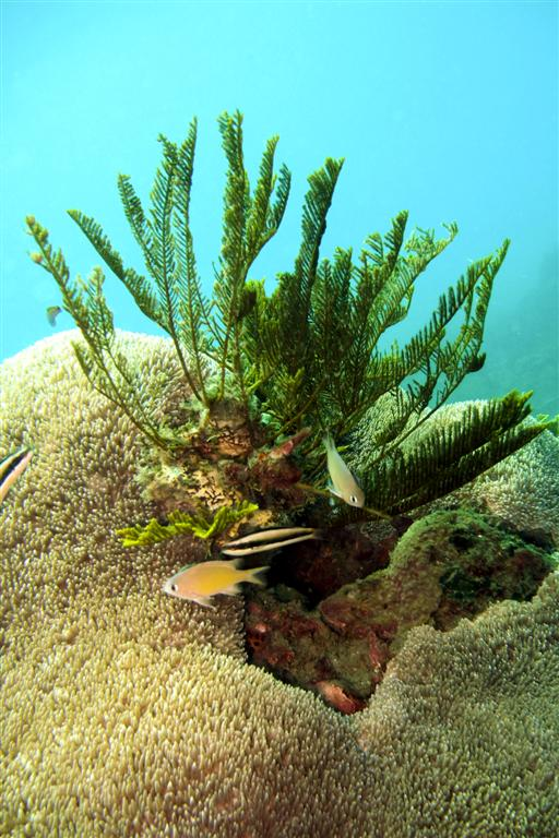 Coral